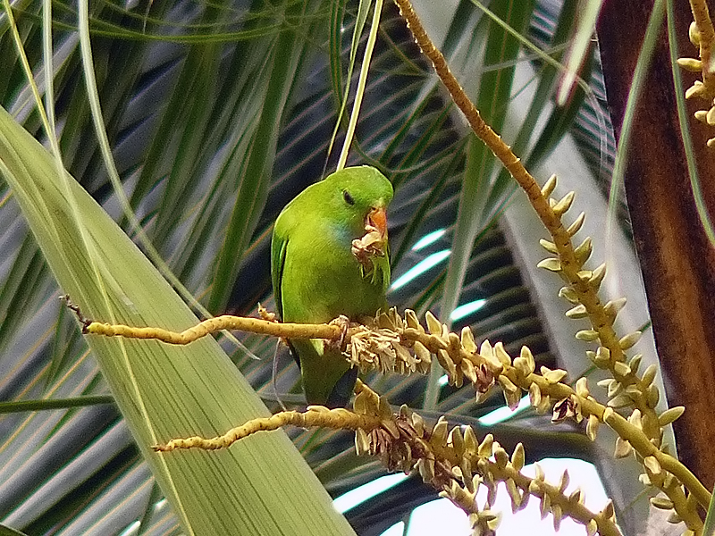 Vernal Hanging Parrot Loriculus vernalis, Kannur, Kerala, India